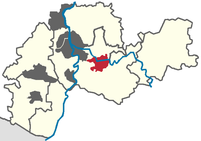 Heidelberg in the Rhine Neckar Area (Rhein-Neckar-Dreieck) in Germany